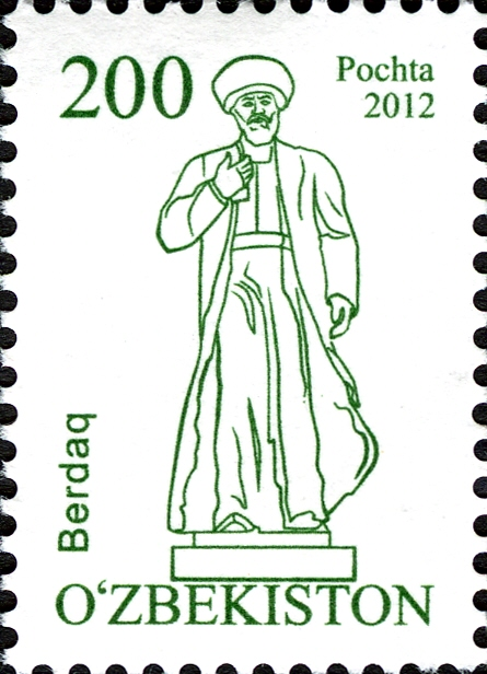 Stamps of Uzbekistan, 2012